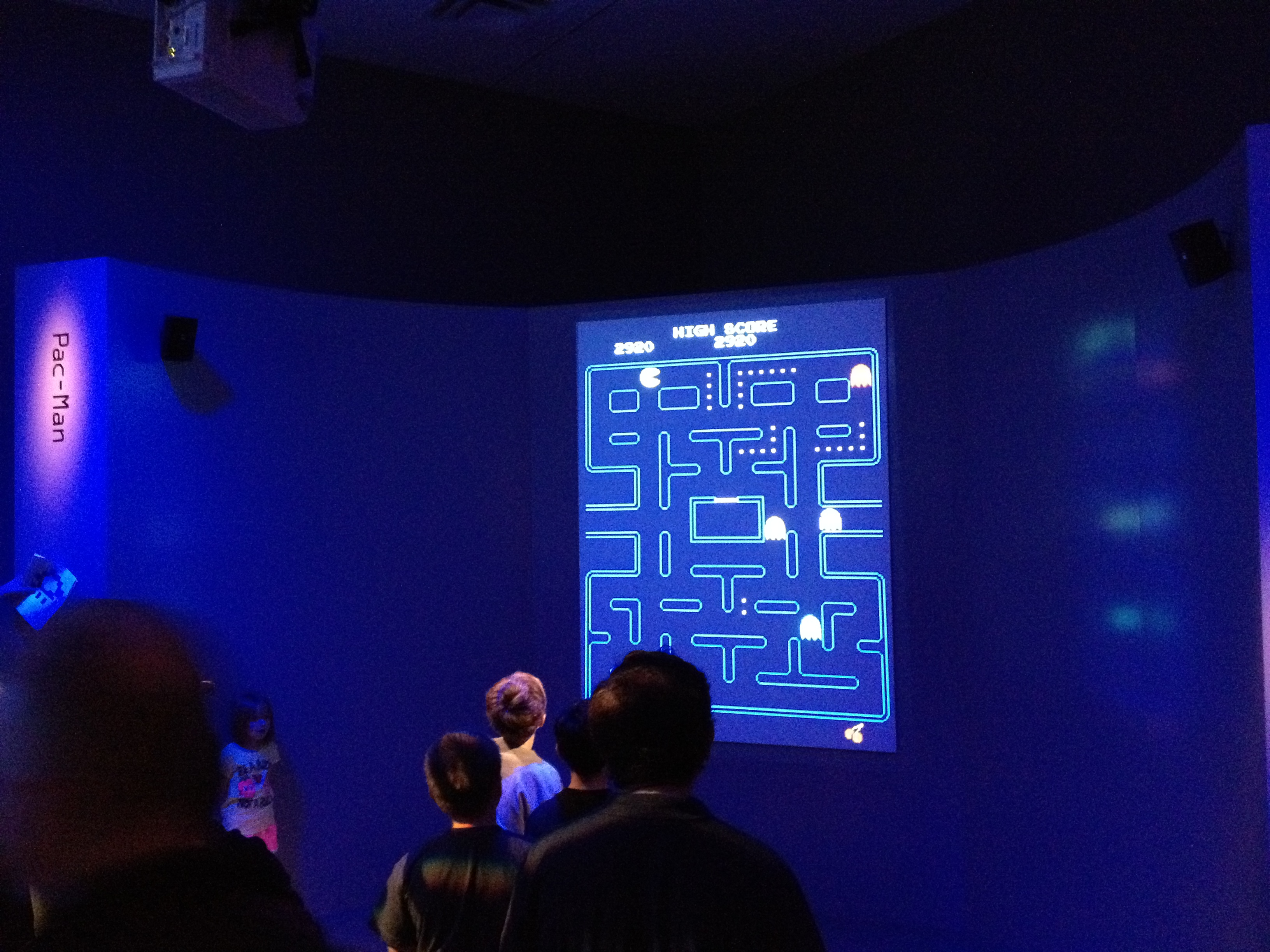 Exhibit at the Smithsonian American Art Museum (March 16, 2012 - September 30, 2012) Photos from opening weekend